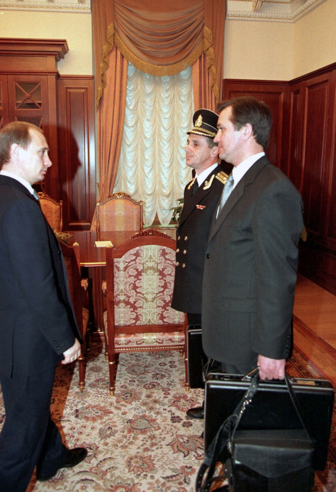 THE KREMLIN, MOSCOW. Acting President Vladimir Putin receiving the “nuclear briefcase” for controlling Russia's nuclear forces.